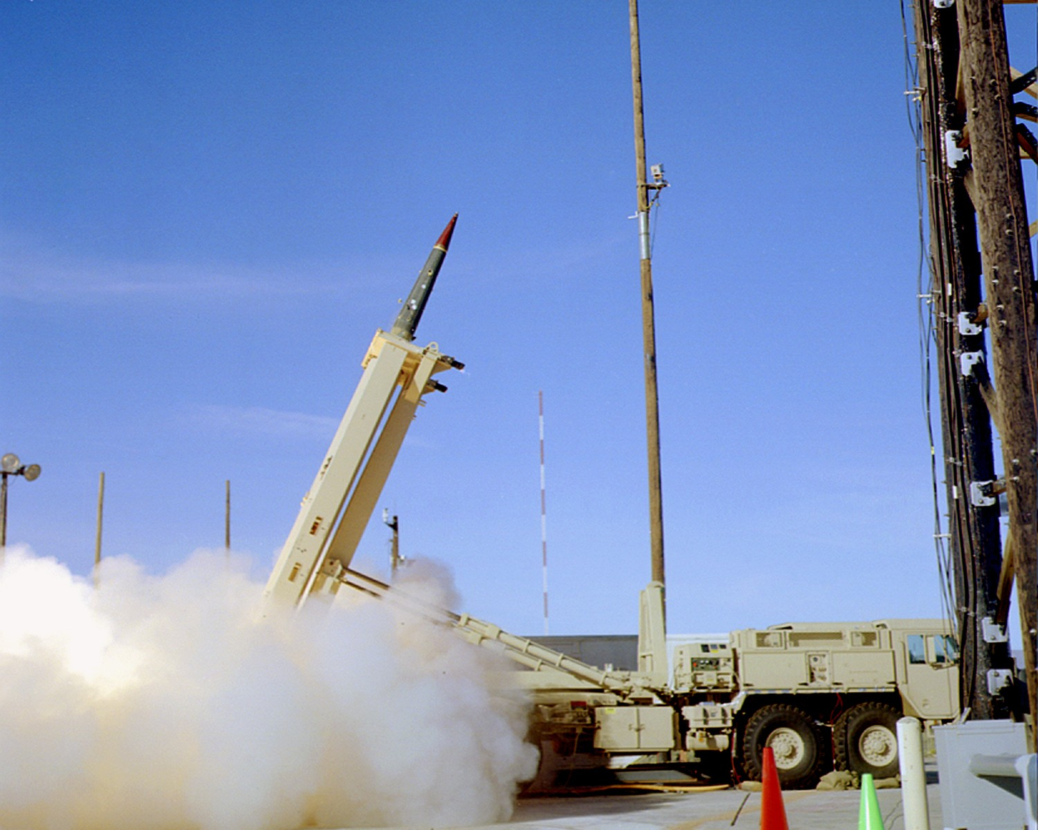 On November 22, 2005 a successful launch was achieved of a THAAD interceptor missile. This test starts a new round of THAAD developmental testing that builds on the investment from earlier THAAD tests, which included two consecutive target intercepts in 1999. It is the first missile defense system that is capable of intercepting a target missile both inside and outside the atmosphere.